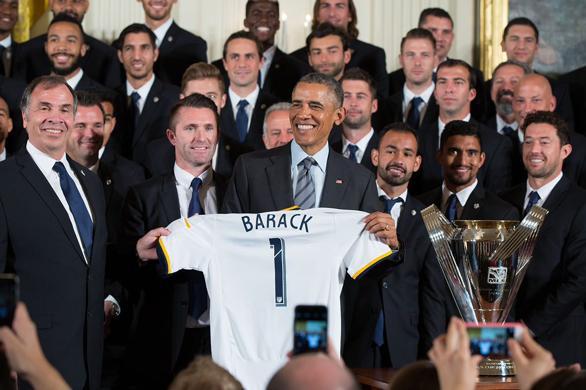 Galaxy Coach Bruce Arena presents President Barack Obama with a team jersey during an event to welcome the 2014 National Hockey League Champion Los Angeles Kings and the 2014 Major League Soccer Cup Champion LA Galaxy, and to honor the teams on winning their Championship titles, in the East Room of the White House. February 2, 2015. (Official White House Photo by Pete Souza)